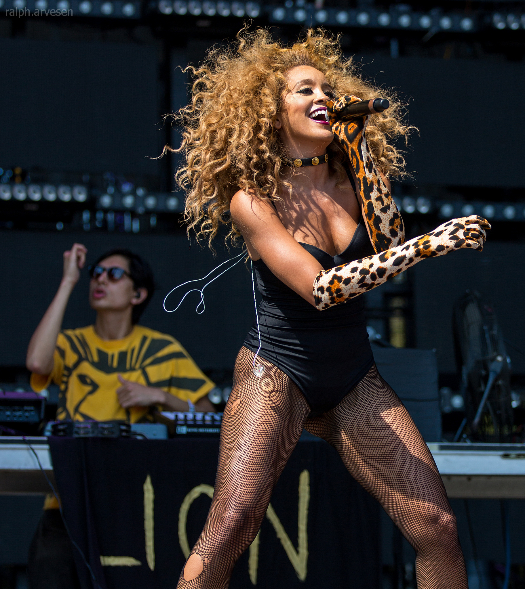 Lion Babe. Austin City Limits Music Festival overview from Friday, October 9 through Sunday, October 11, 2015.